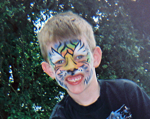 Child in Tiger face paint